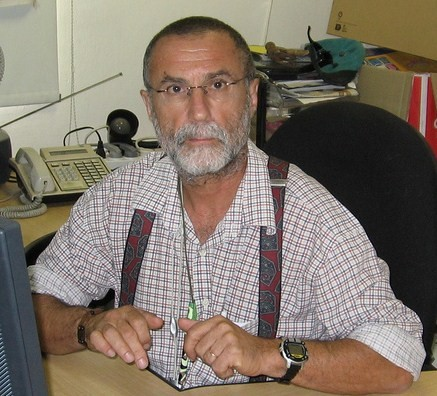 Yosi Melman, an Israeli Journalist